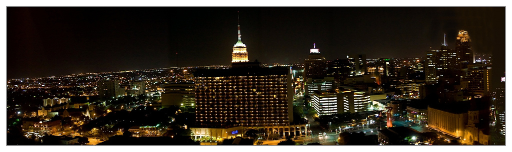 This is probably only my second Pano ever, and the first that's actually come out well. This is the view I had from my hotel room on the 8th floor of the Hyatt Grand Hotel in San Antonio, TX. Beautiful, isn't it?